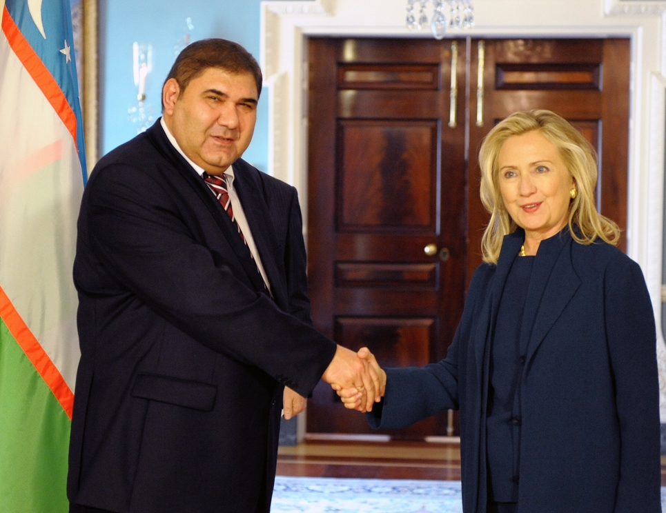 Elyor Ganiev meeting with U.S. Secretary of State, Hillary Rodham Clniton.